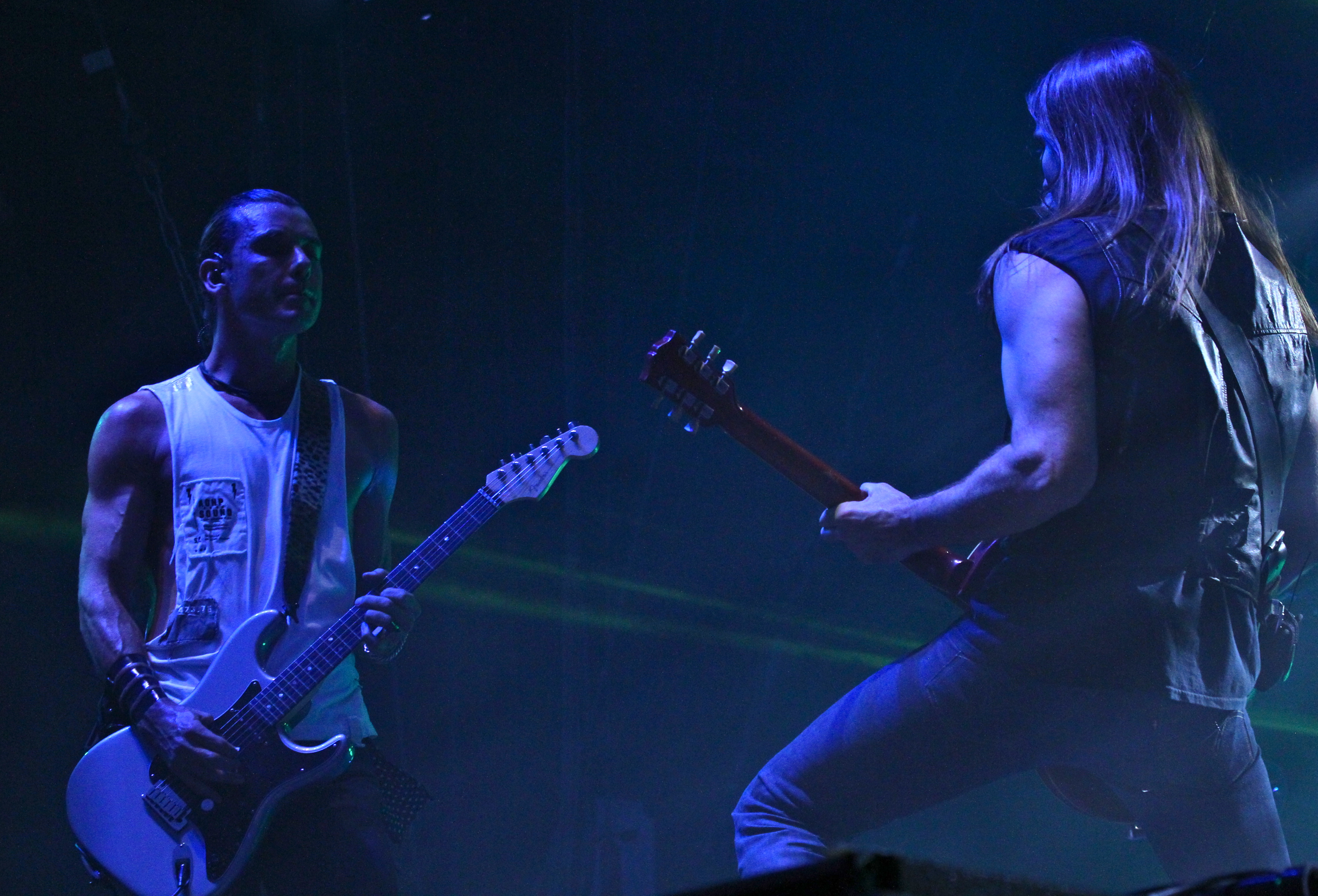 Posted via email from Globalite Magazine